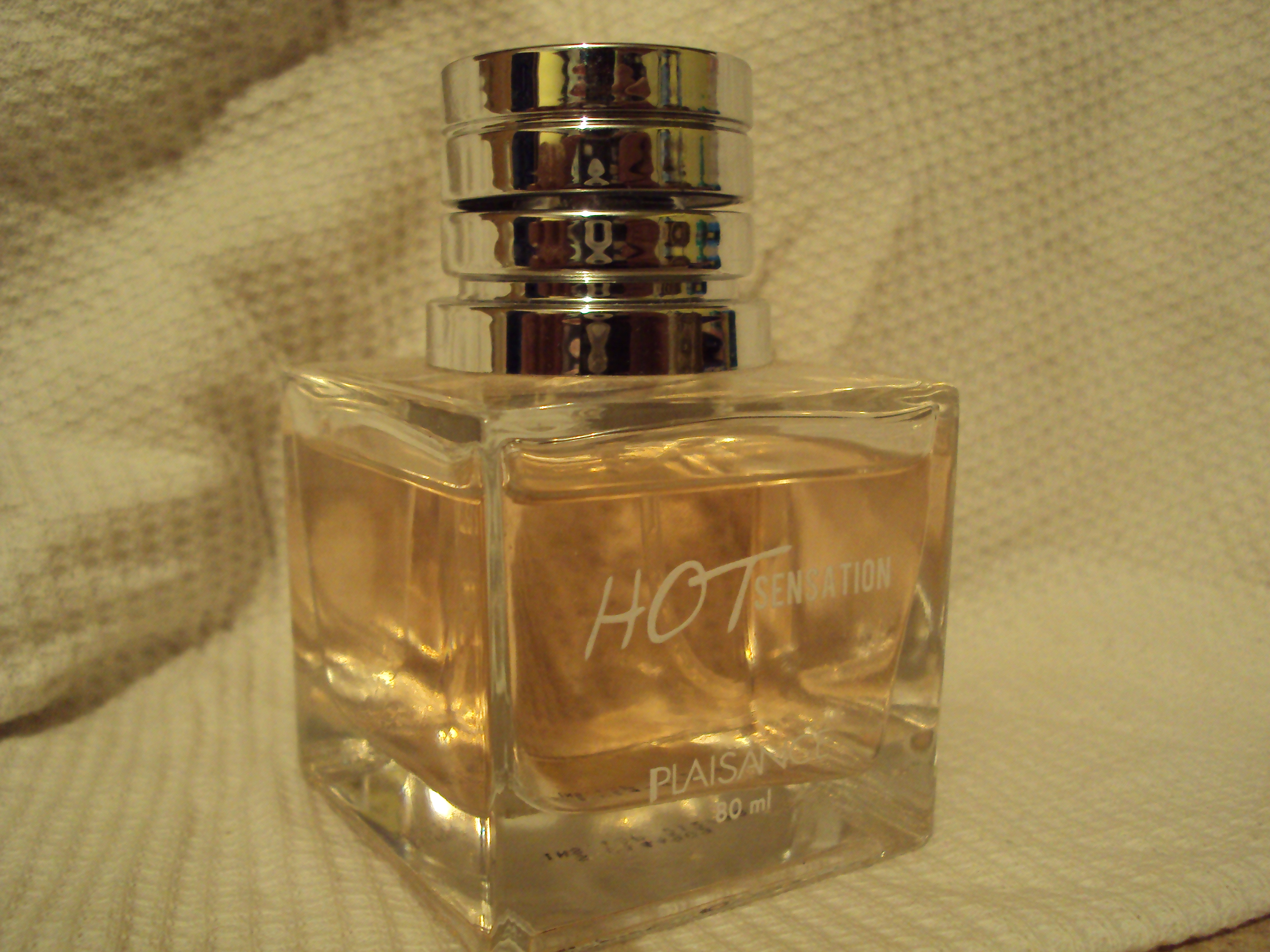 parfum "hot sensation" by plaisance